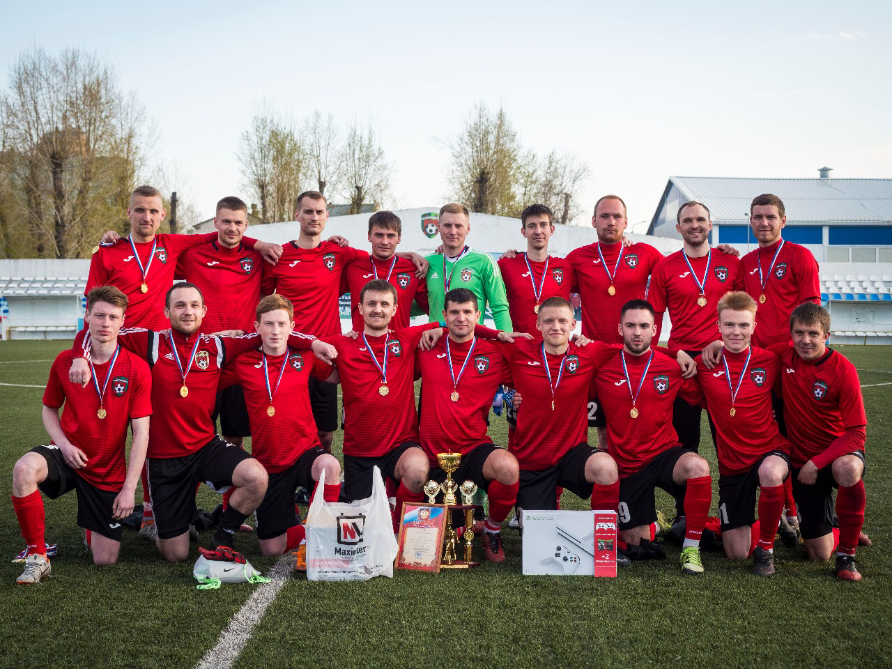 Фотография ФК "Благовещенск"